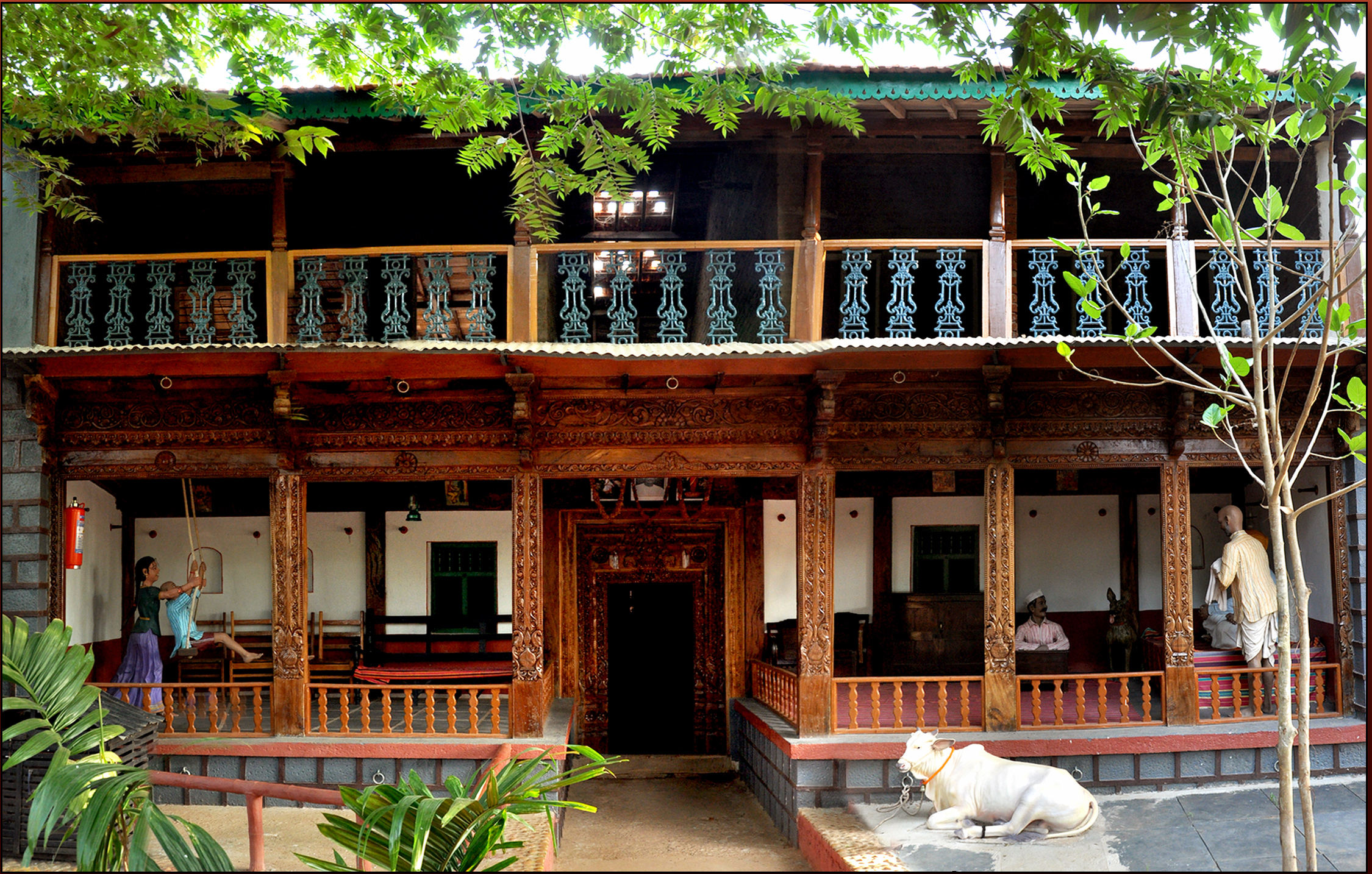 A typical house of Head of the village